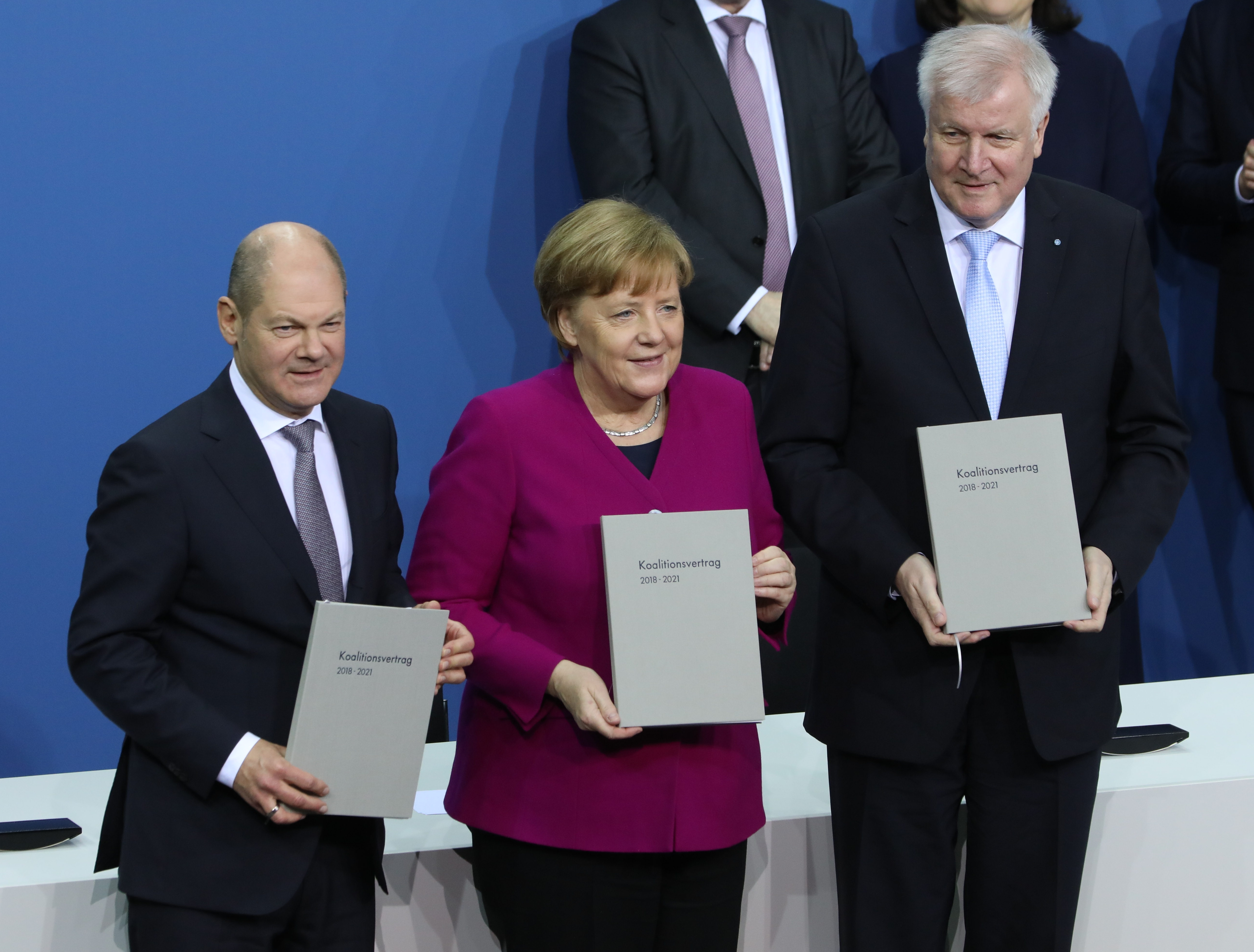 Signing of the coalition agreement for the 19th election period of the Bundestag: Olaf Scholz;Angela Merkel;Horst Seehofer